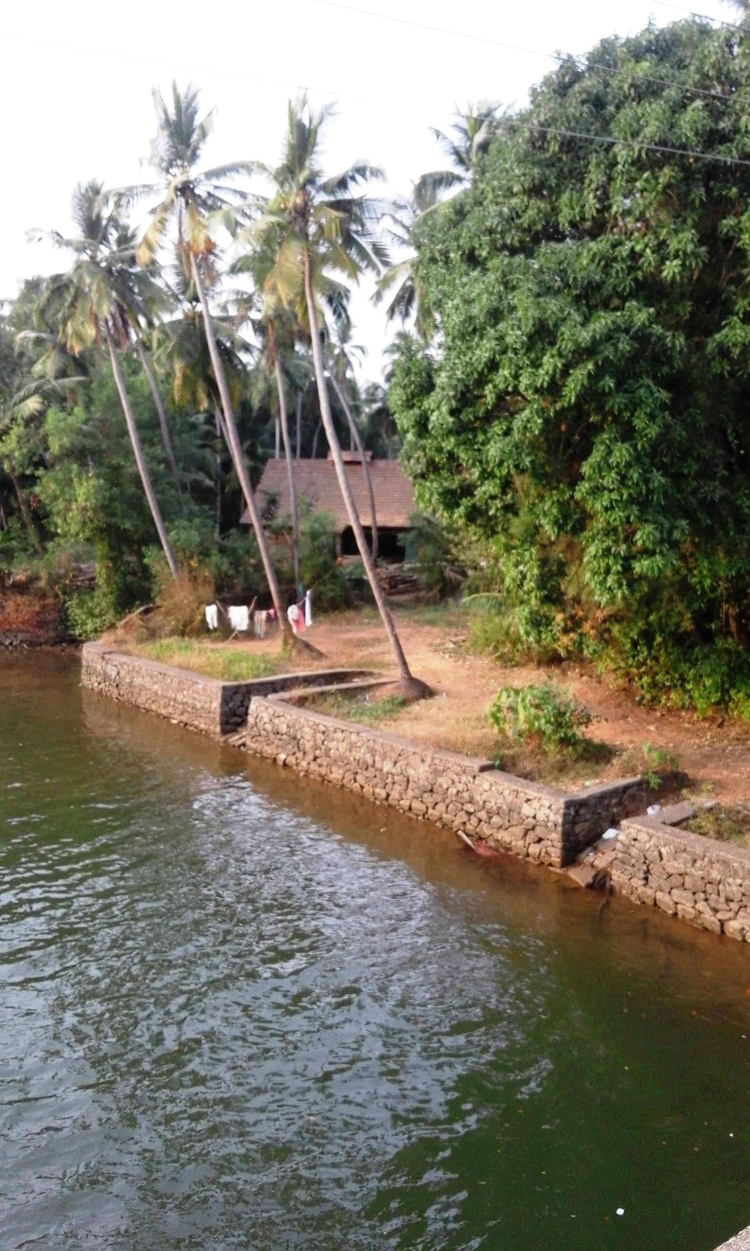 Olipram Kadavu, Vallikkunnu Panchayath, Malappuram District, Kerala, India